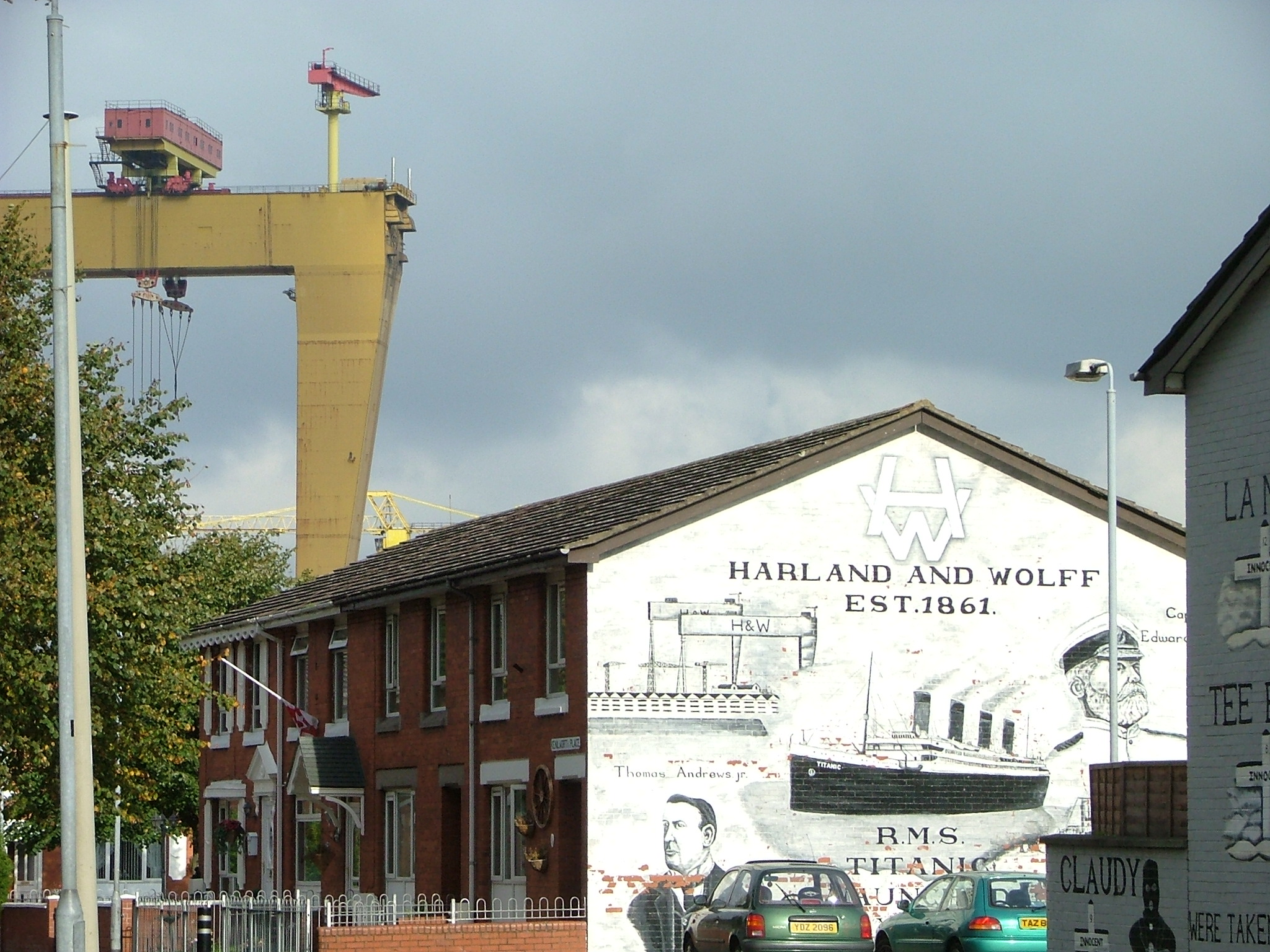 Harland and Wolff mural in Belfast.